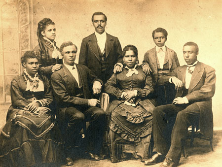 Aaron Albert Mossell I and Eliza Bowers with 5 of their children. From left to right are: Mary Mossell; Alvaretta Mossell; Charles Mossell; Aaron Albert Mossell II the father of Sadie Tanner Mossell (1898-1989); and Nathan Francis Mossell (1856-1946).